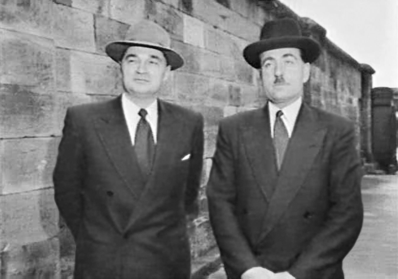 G.R. Richards (Deputy of ASIO) and Brigadier Charles Spry (Director-General of Asio) at the Petrov Royal Commission, Darlinghurst, 10 September 1954. Australian Photographic Agency Collection, State Library of New South Wales